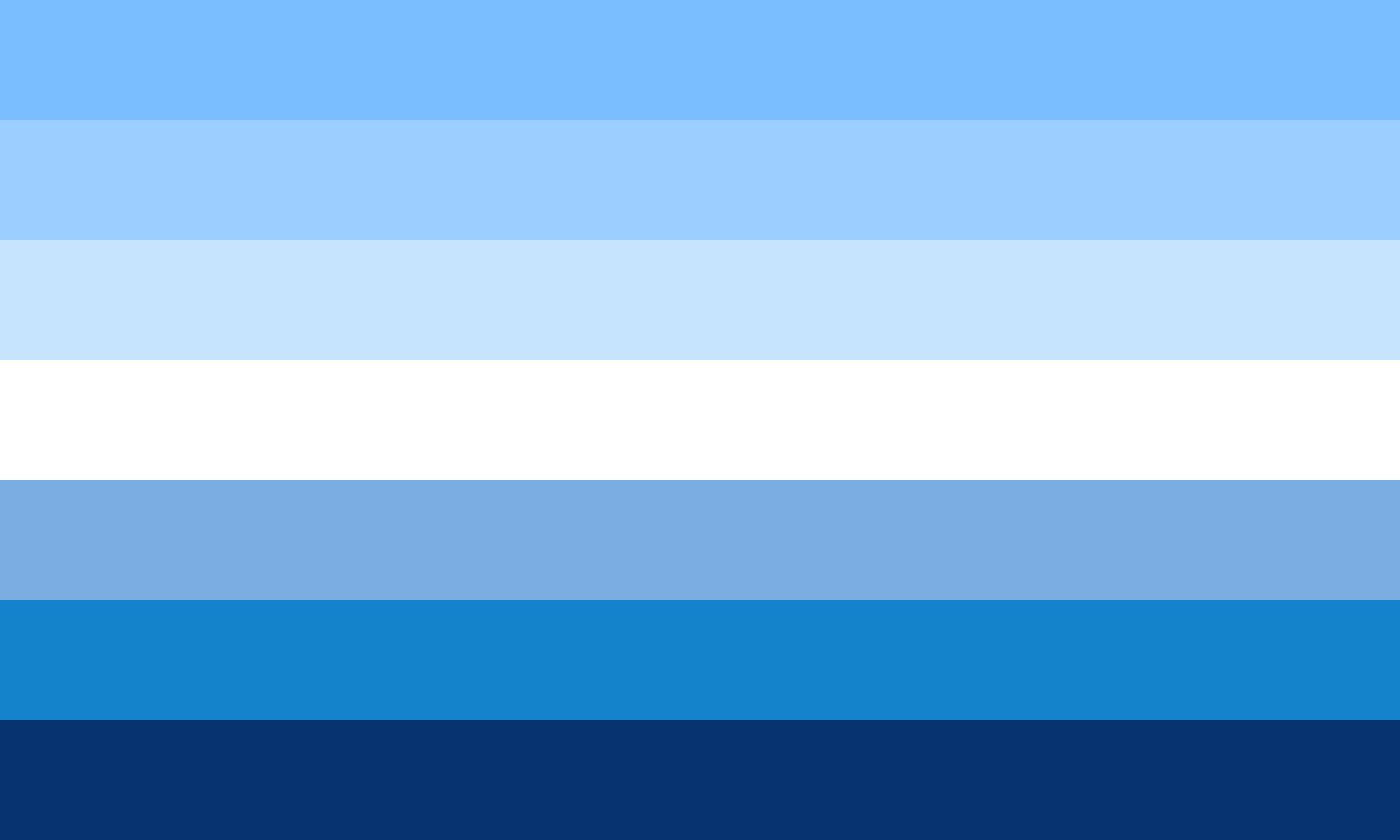 The flag consists of shades of blue and azure, symbolizes the attraction of men to each other and the diversity of the gay community itself. Blue and azure shades for the gay flag were chosen on the basis that these colors are used for the symbolic image of men and homosexual men in particular. The flag has seven horizontal stripes. First top three stripes are coloured in azure gradation from dark to light: azure, sky blue, light sky blue. The fourth stripe is white. The fifth stripe is grey light blue. Last sixth and seventh stripes are blue, from light to dark. The goal of creating this flag was increasing the subjectivity of the gay community as a separate part of the entire LGBT community and the awareness of gay people of their own specific problems - such as gayphobia and misandry (gender stereotypes against men) in general, masculine divergence, demonization of gay men with accusations of child molestation, sadism and other unacceptable perversions, double standards for attitudes towards bisexuality and bi-curiosity, problems with reproductive rights and opportunities (access to surrogacy services, creation of artificial womb and reproductive independence of men in general), a number of countries where only male homosexuality is prohibited, a rigid framework for gentle tactile male friendship and a gender "male box" in general.